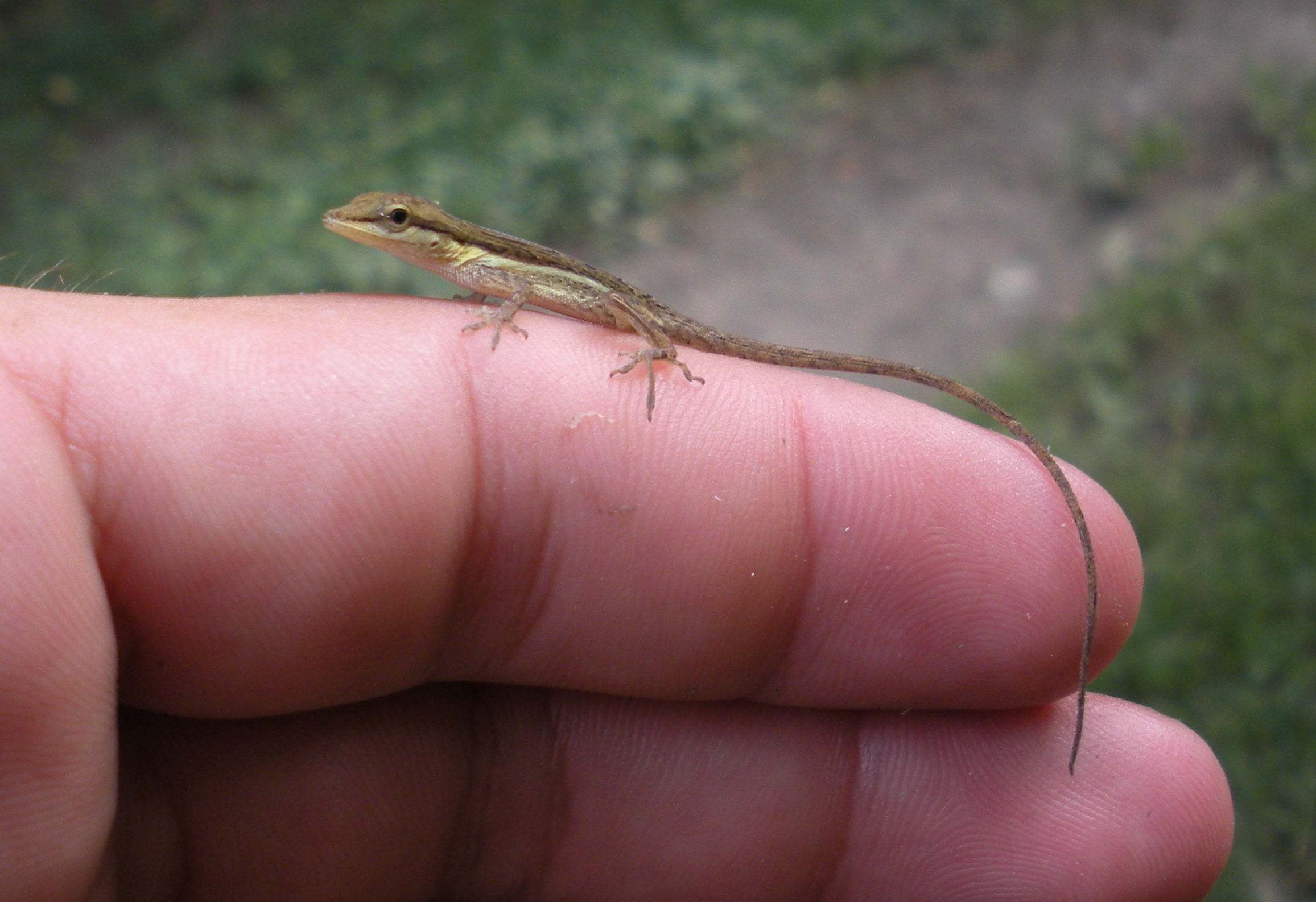 Juvenile Anolis pulchellus found at the Jobos Bay National Estuarine Research Reserve, Aguirre, Puerto Rico